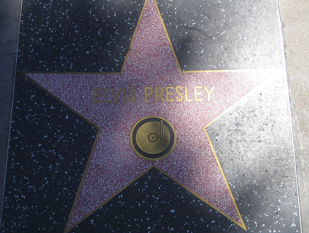 Elvis Presley's star on the Hollywood Walk of Fame in Los Angeles, California, United States.